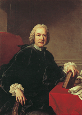 Portrait of Italian poet Pietro Metastasio (1698-1782)